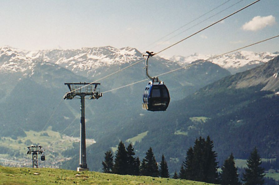 The Madrisa Bahn Cable Car in Klosters, Graubünden, Switzerland. June 12, 2006.